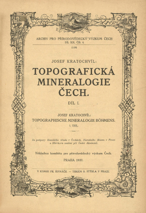 Cover of the first volume of Topograficka Mineralogie Cech, from Josef Kratochvil